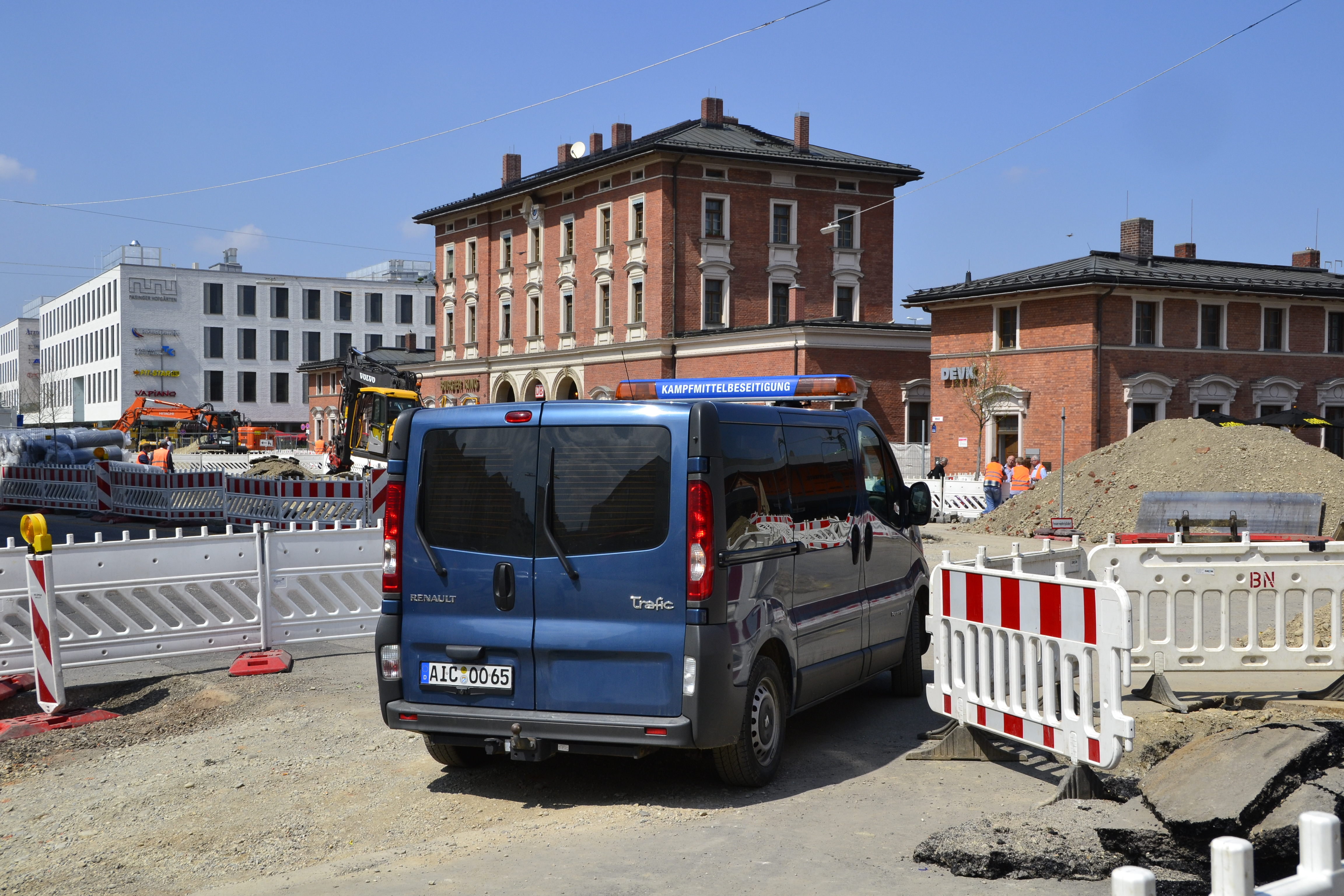 A bomb from the Second World was found in Munich-Pasing on April 24th, 2013. The Unexploded ordnance was disposed shortly after. The disposal service is currently working.